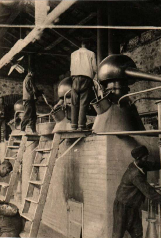 Rose oil factory, Bulgaria